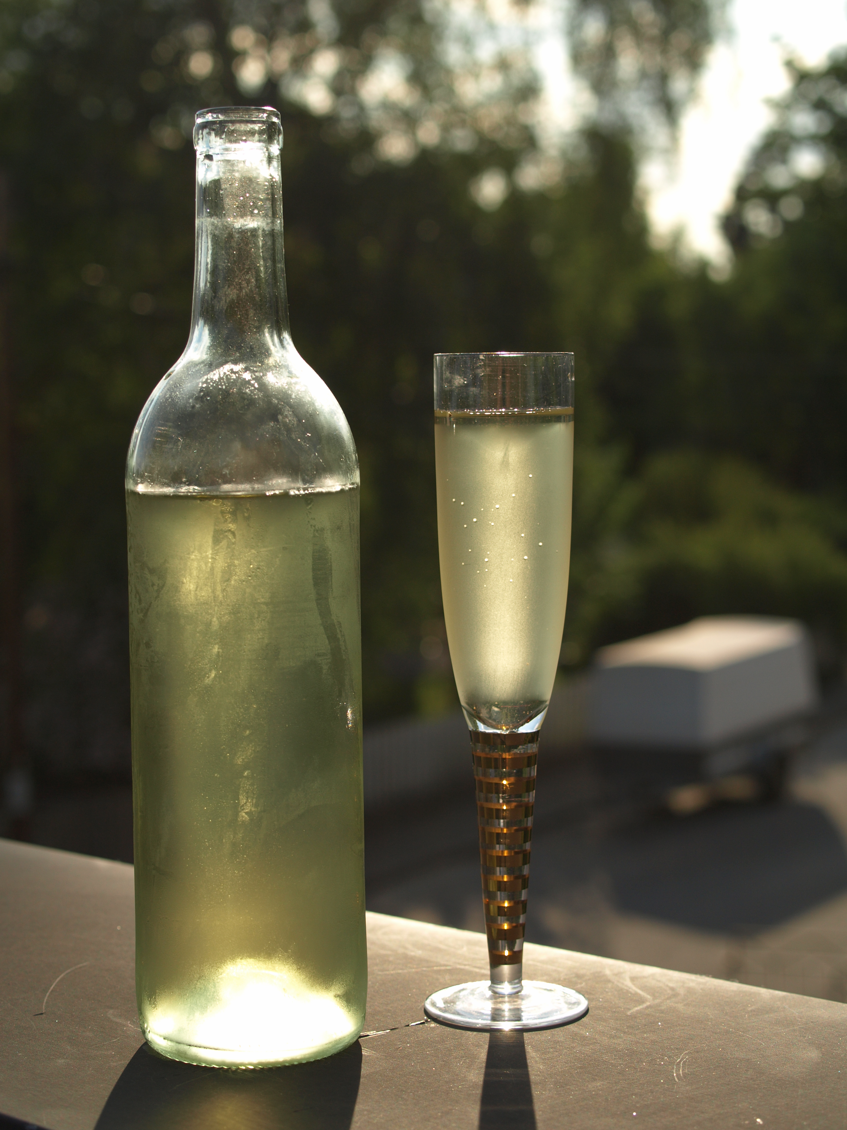 Swedish Mead being enjoyed at Midsummer's Eve.